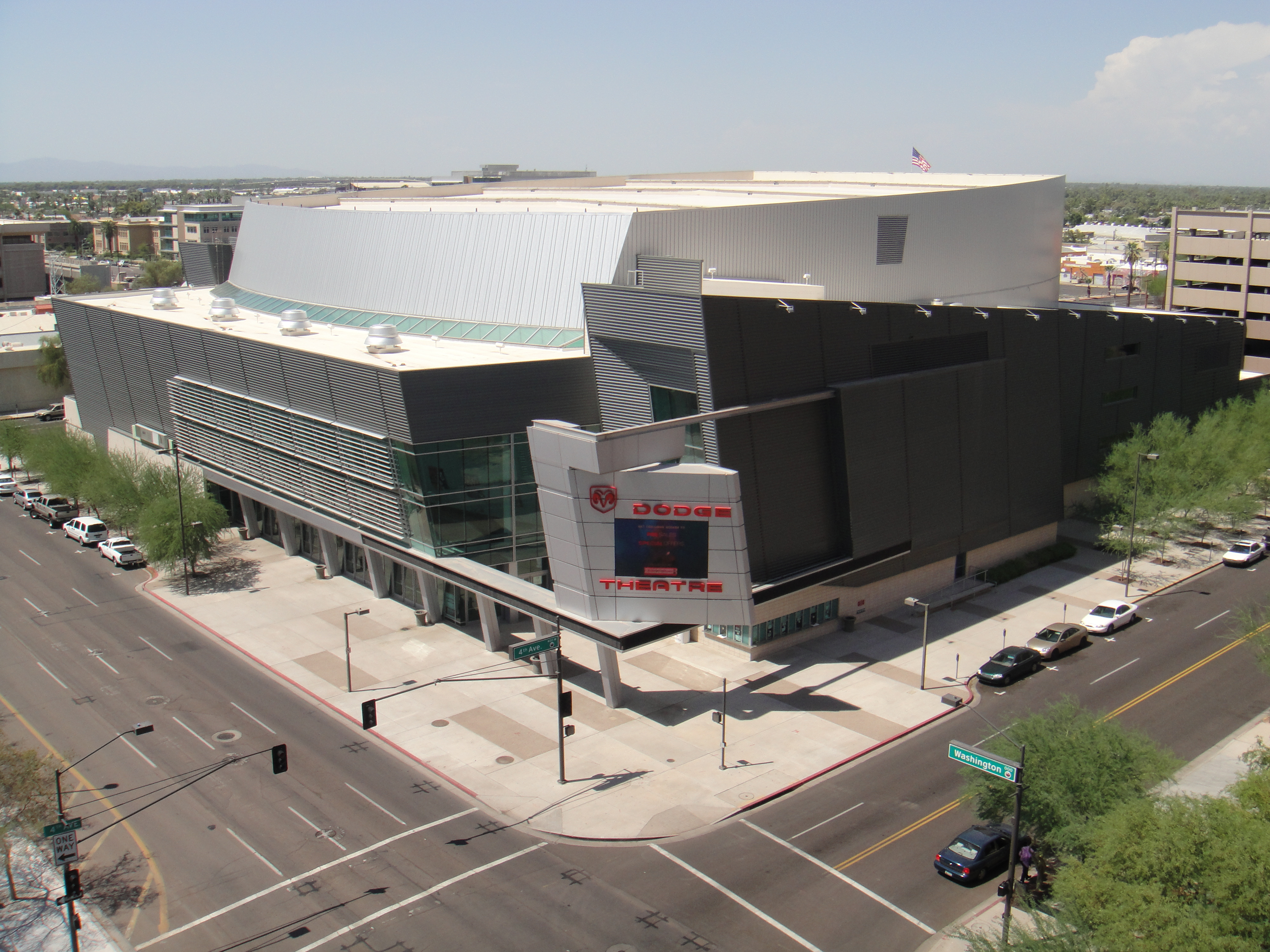 View of the Dodge Theater from the South East